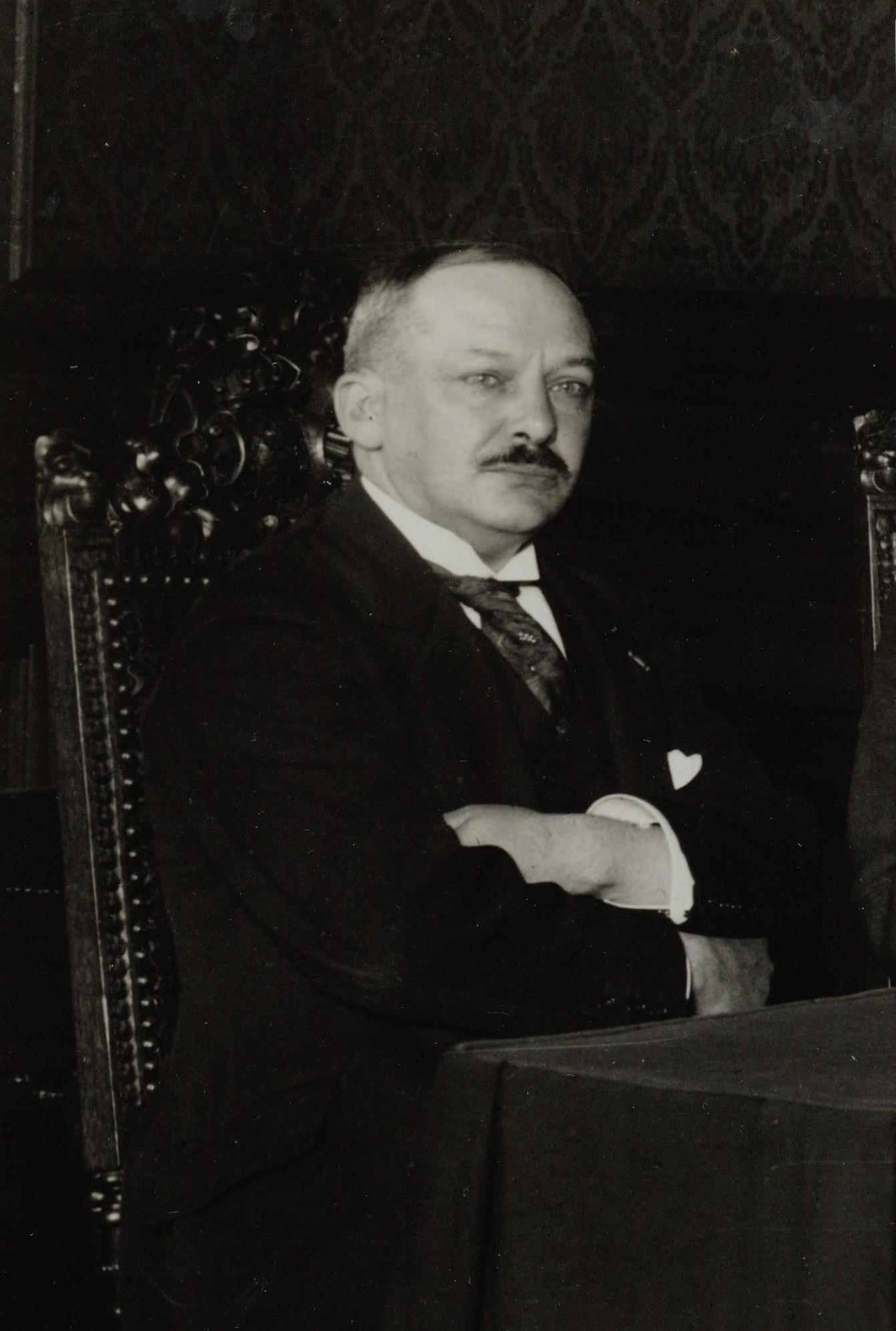 Dr. mr. Victor Henri Rutgers, Amsterdam professor